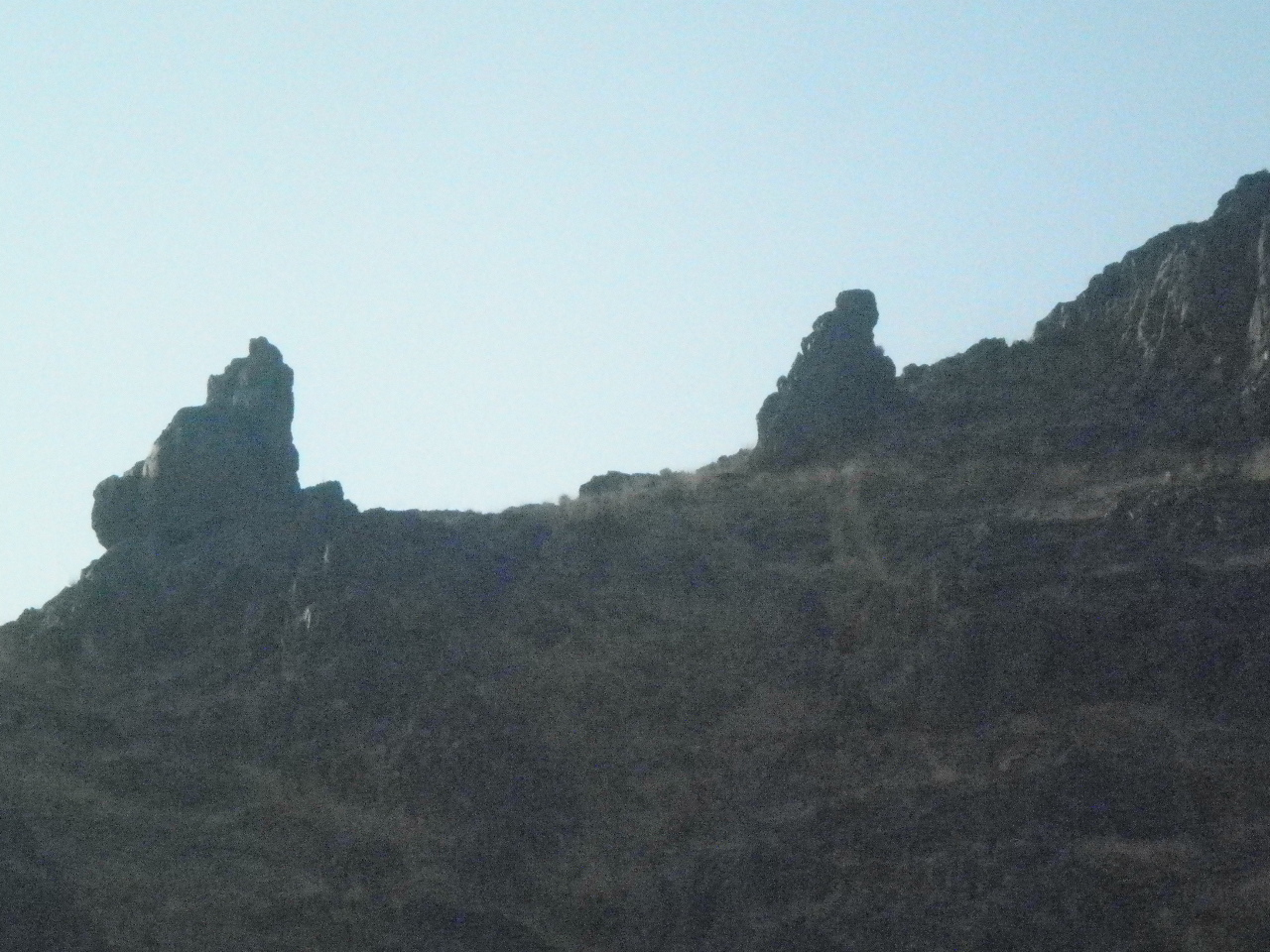 امامزاده دختران ( سنگ شده)